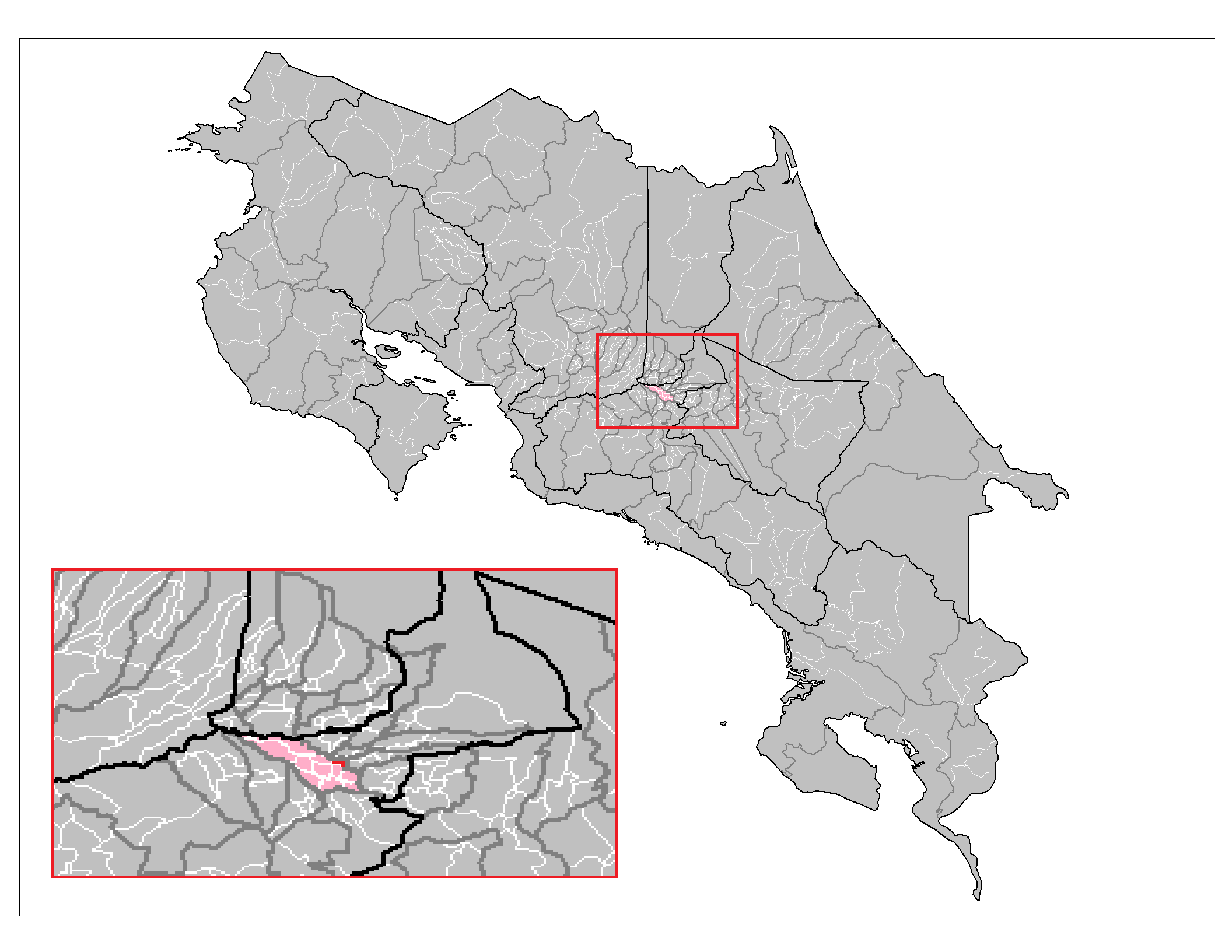 Location of Carmen District in San Jose Canton, Costa Rica